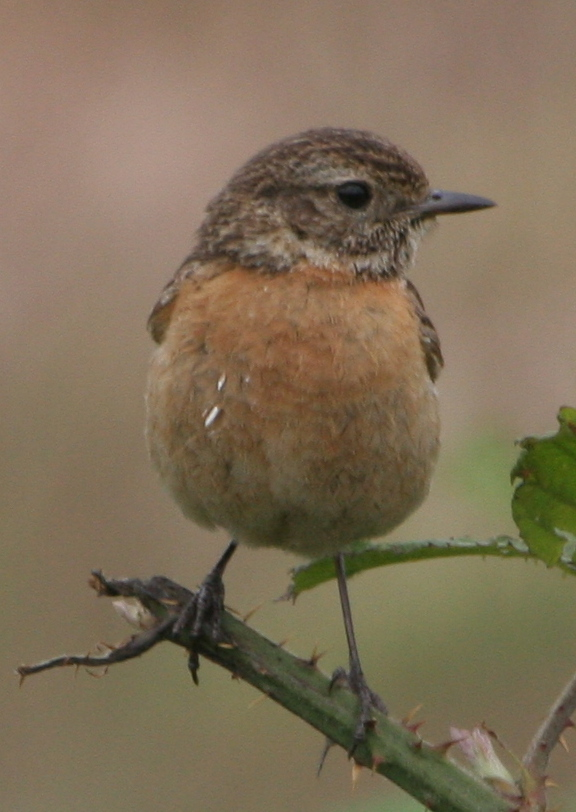 Female stonechat on heath between St Agnes and Porthtowan